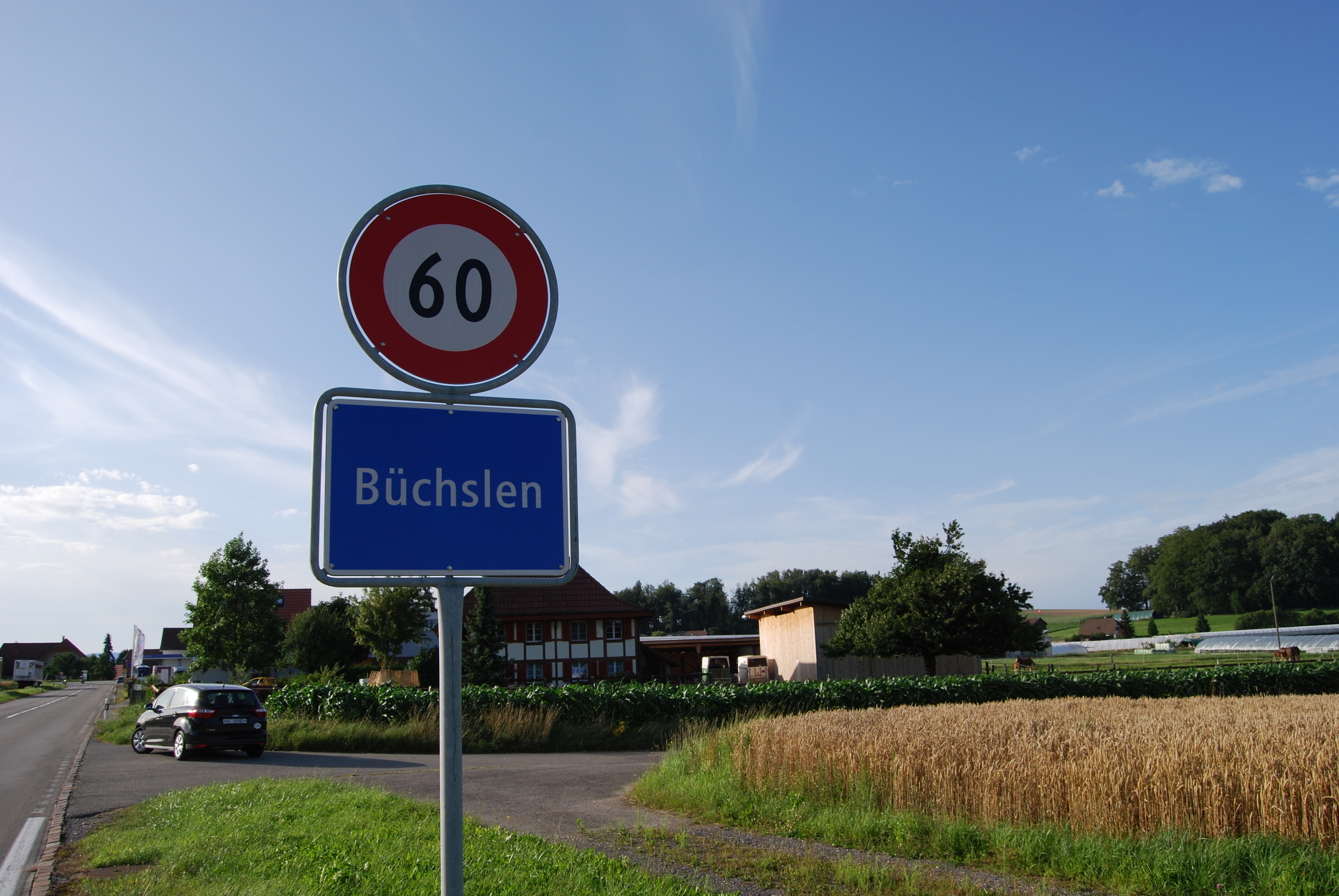 Büchslen, canton of Fribourg, SwitzerlandEsperanto: Büchslen, Kantono Friburgo, Svislando